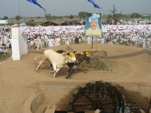 The bulls are going round pulling water from the deep well- note how they are unided and nobody is allowed onto their platforms but blindfolded in order to prevent them being frightened by the thousands of people in attendance